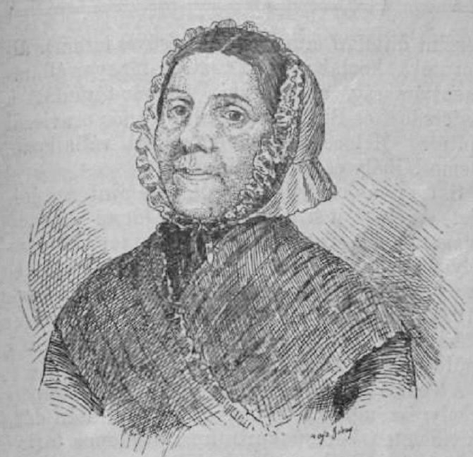 Mária Pulay, Mór Jókai's oil painting from 1843